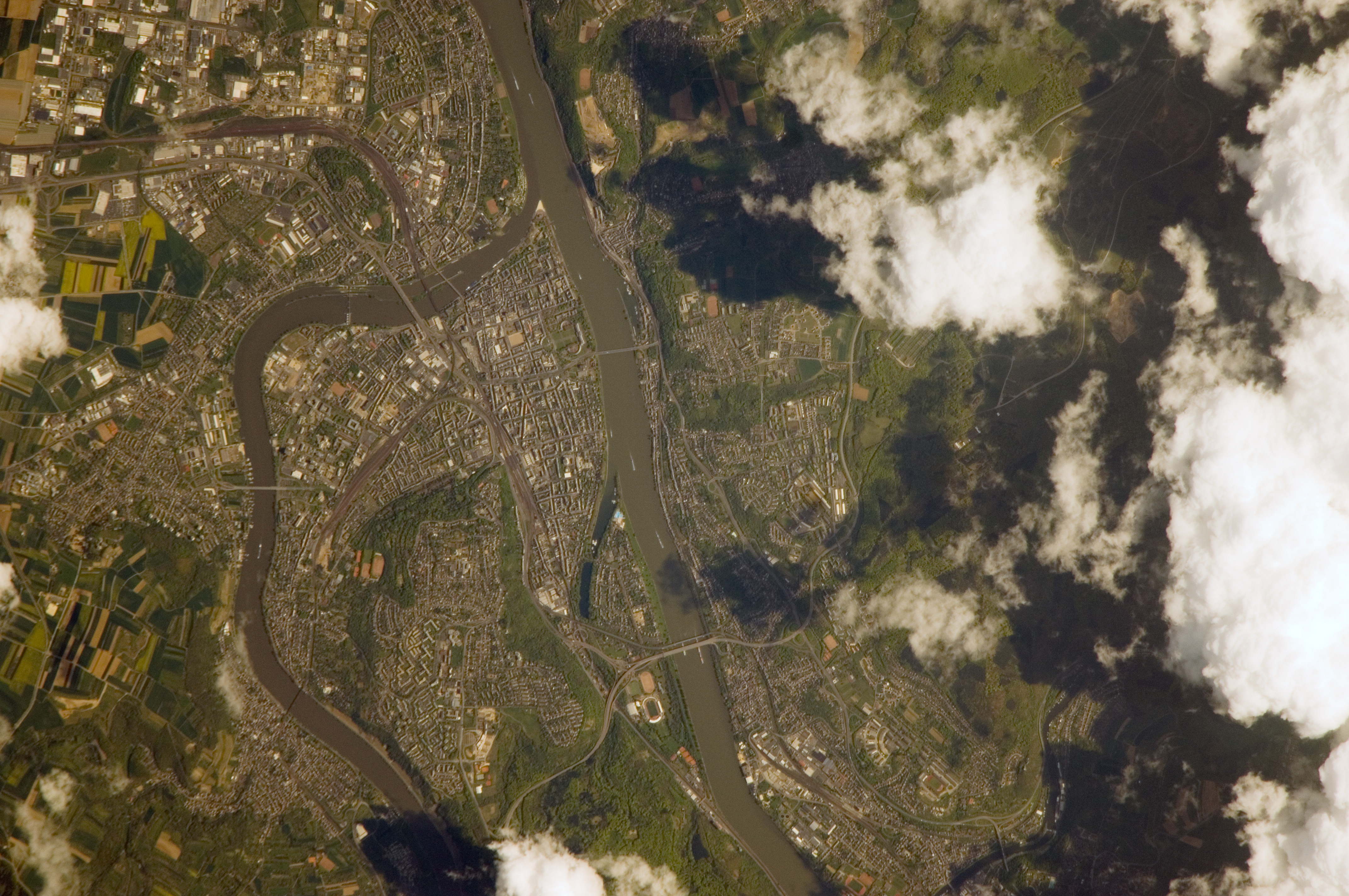 View from ISS at Koblenz, Germany